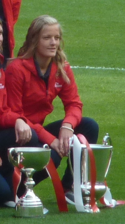 With all their trophies, show offs.